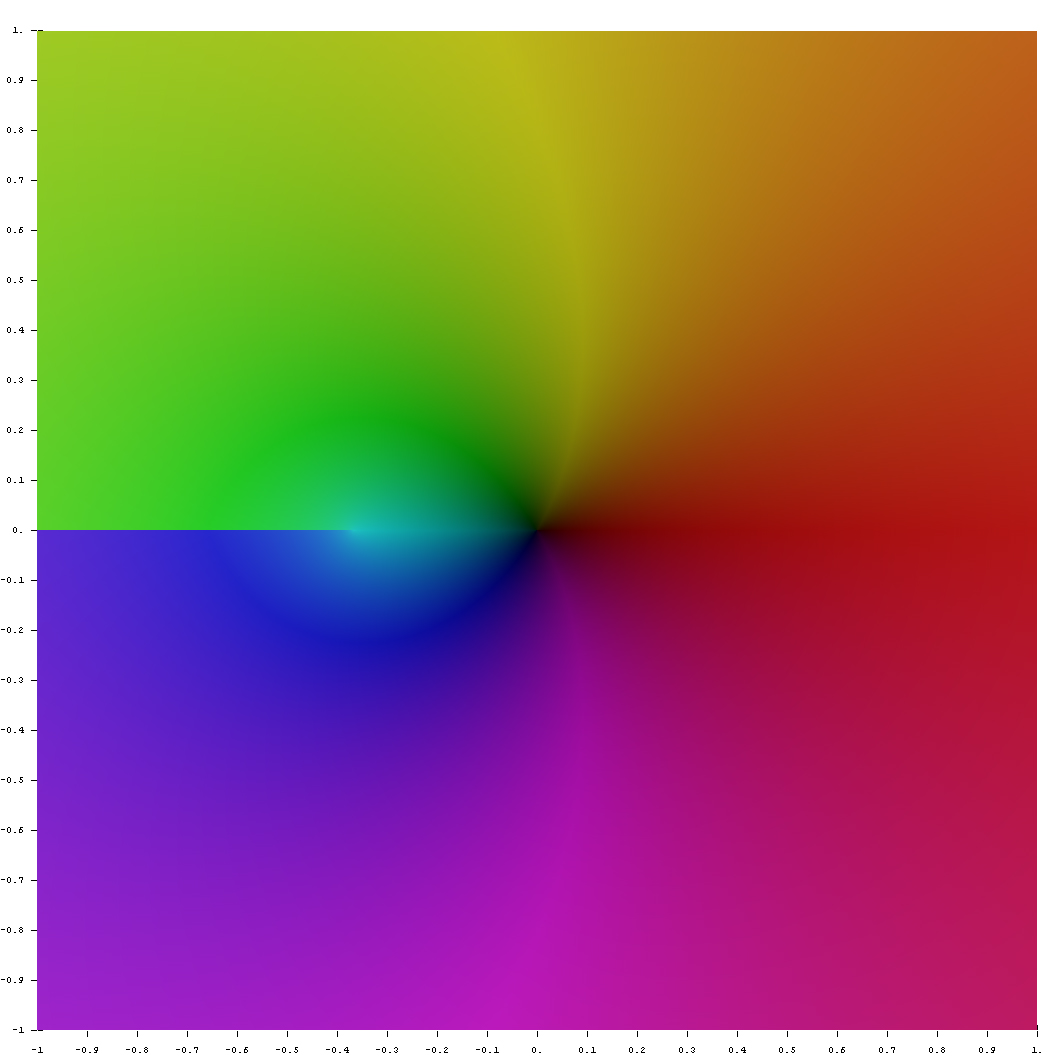 function ProductLog[z] in the complex plane.